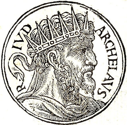 Herod Archelaus was the ethnarch of Samaria, Judea, and Edom from 4 BC to 6 AD.